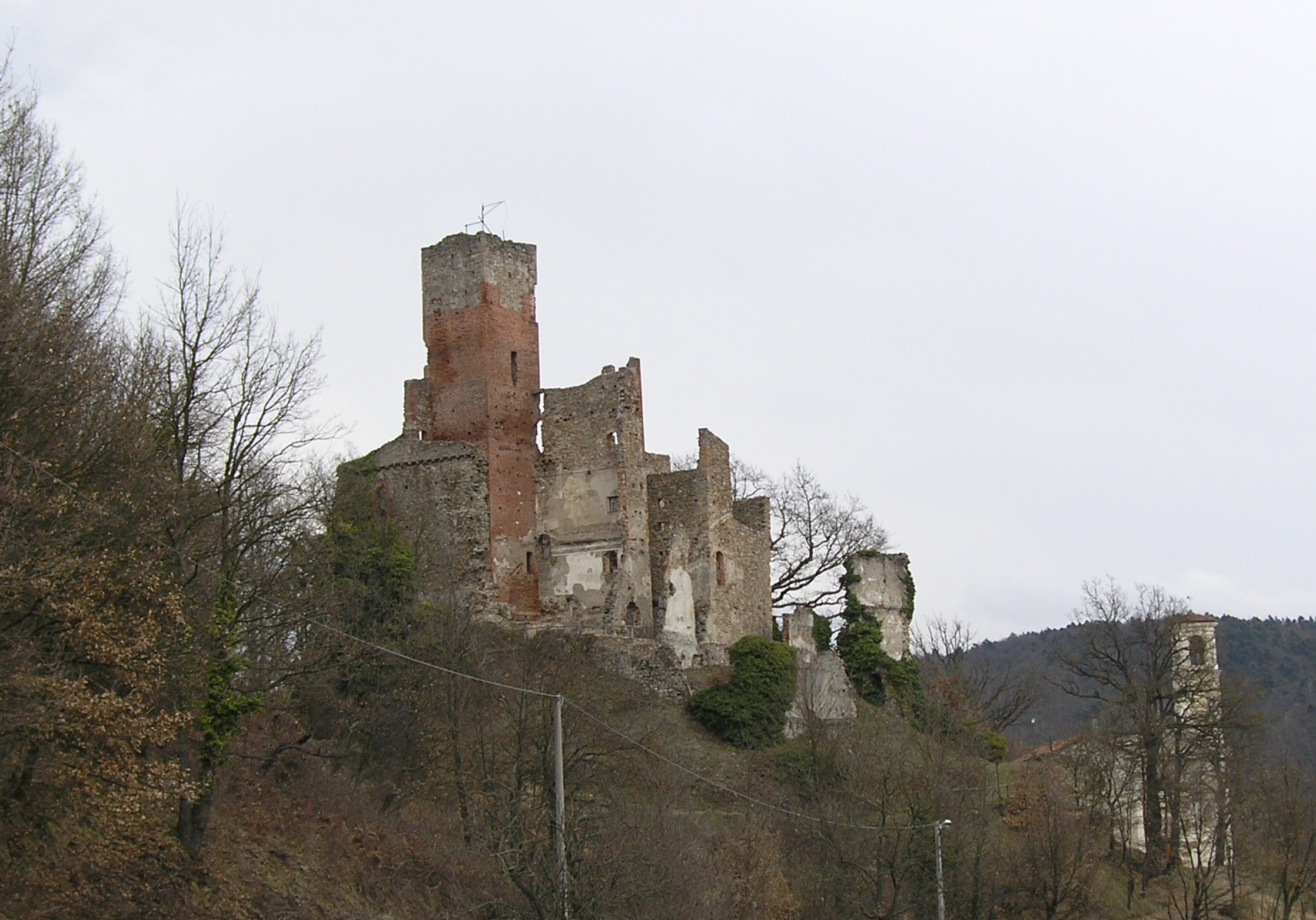 View of the ruins of the Nucetto castle (Italy)